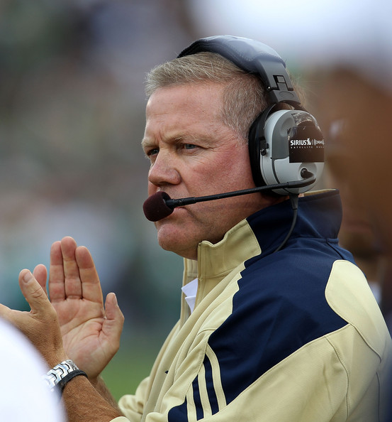 Photo of ND Coach Brian Kelly